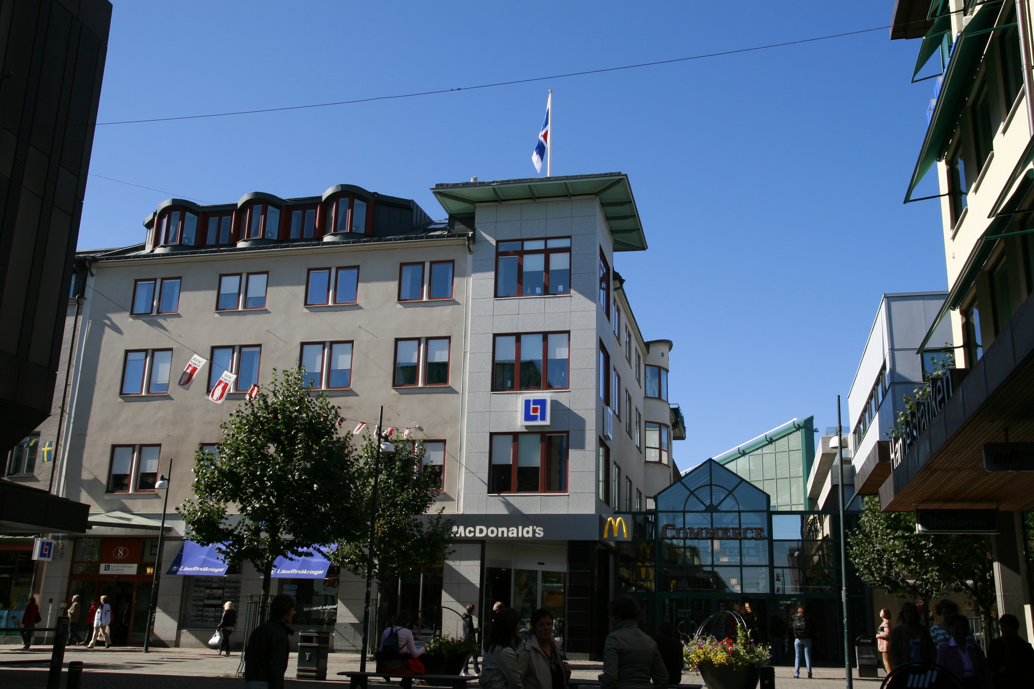 Länsförsäkringar Skaraborg Skövde office